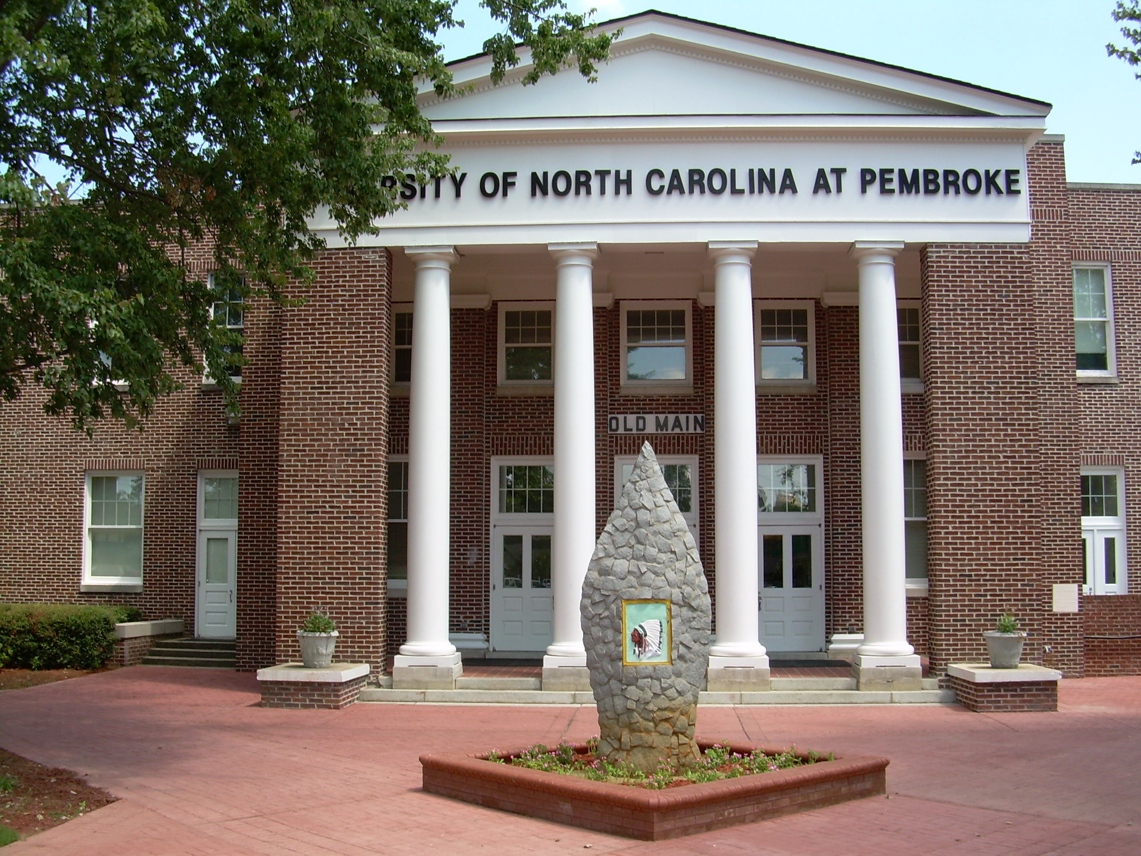 The Old Main, the oldest building located on the University of North Carolina at Pembroke's campus, is one of the most recognizable buildings on campus and it is listed on the national register of historic places.